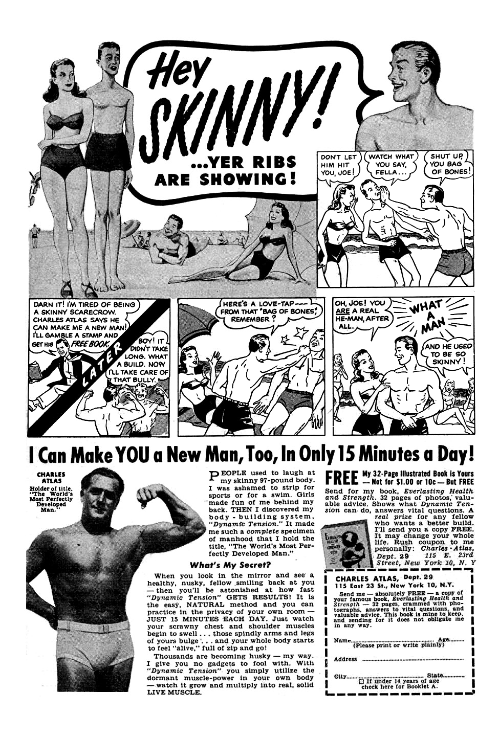 1953 variant of the well-known Charles Atlas body building ad. In this version, "Joe" is first taunted then physically abused by a muscular bully. Sexual stereotyping is prominent within the narrative; the weaker male is held up for public humiliation and ridicule. After violently defeating his rival, Joe finds himself literally surrounded by attractive young women. What a man! PNG version of this file.